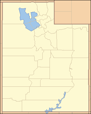 Locator Map of Utah, United States